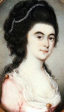 Mrs. Charles Bulfinch (Hannah Apthorp). about 1788. By Joseph Dunkerley, American, Active 1784–1788. 4.44 x 2.7 cm (1 3/4 x 1 1/16 in.). Watercolor on ivory.